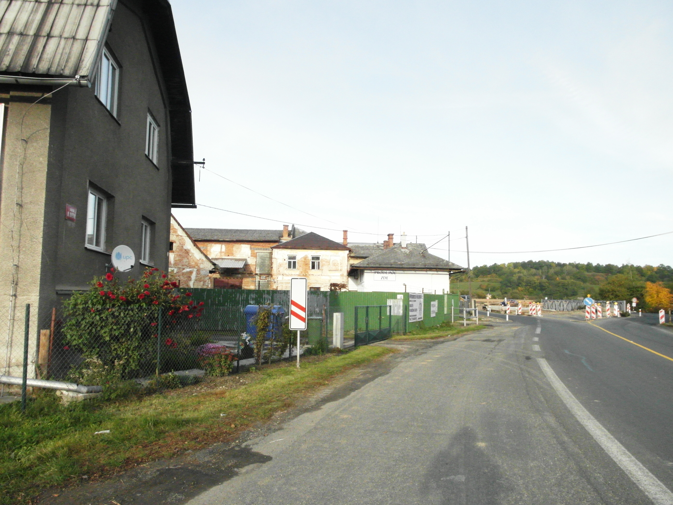 Habermann's mill in Bludov, Šumperk District